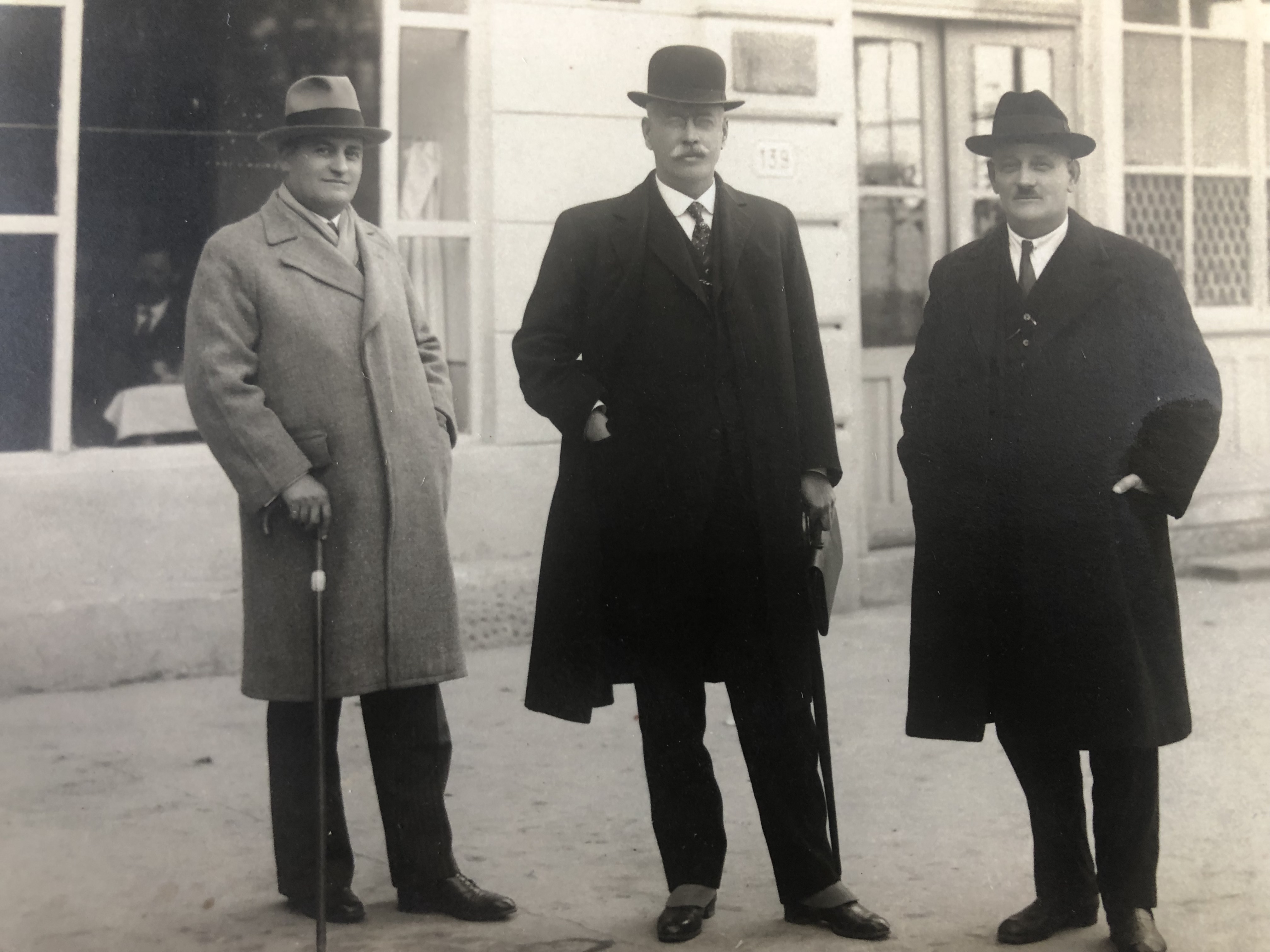 Rade Dunjic